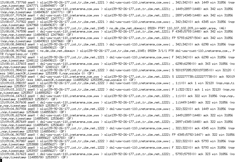 Screenshot of tcpdump